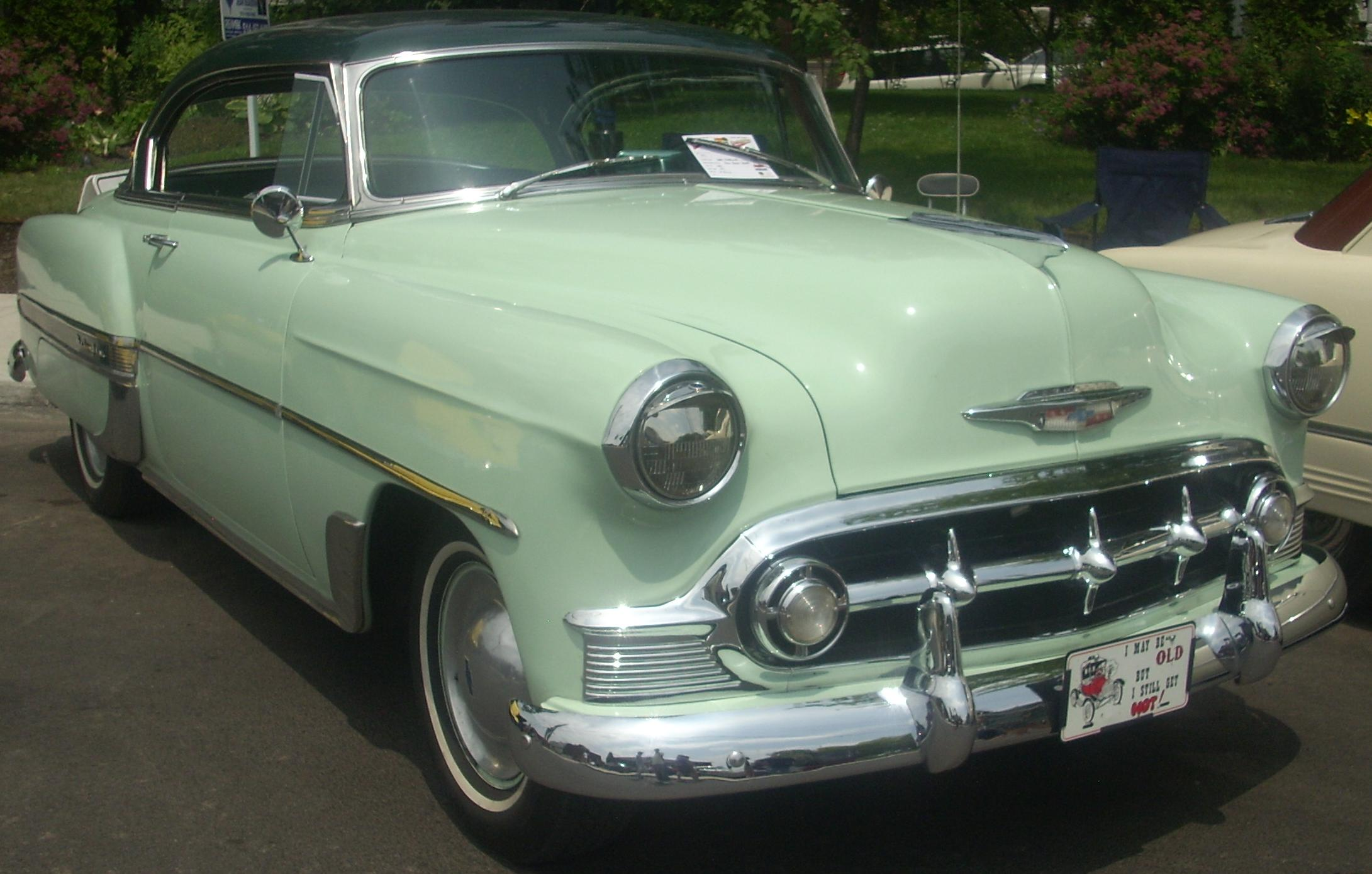 1953 Chevrolet Bel Air photographed in Ste. Anne De Bellevue, Quebec, Canada at Cruisin' At The Boardwalk 2010.